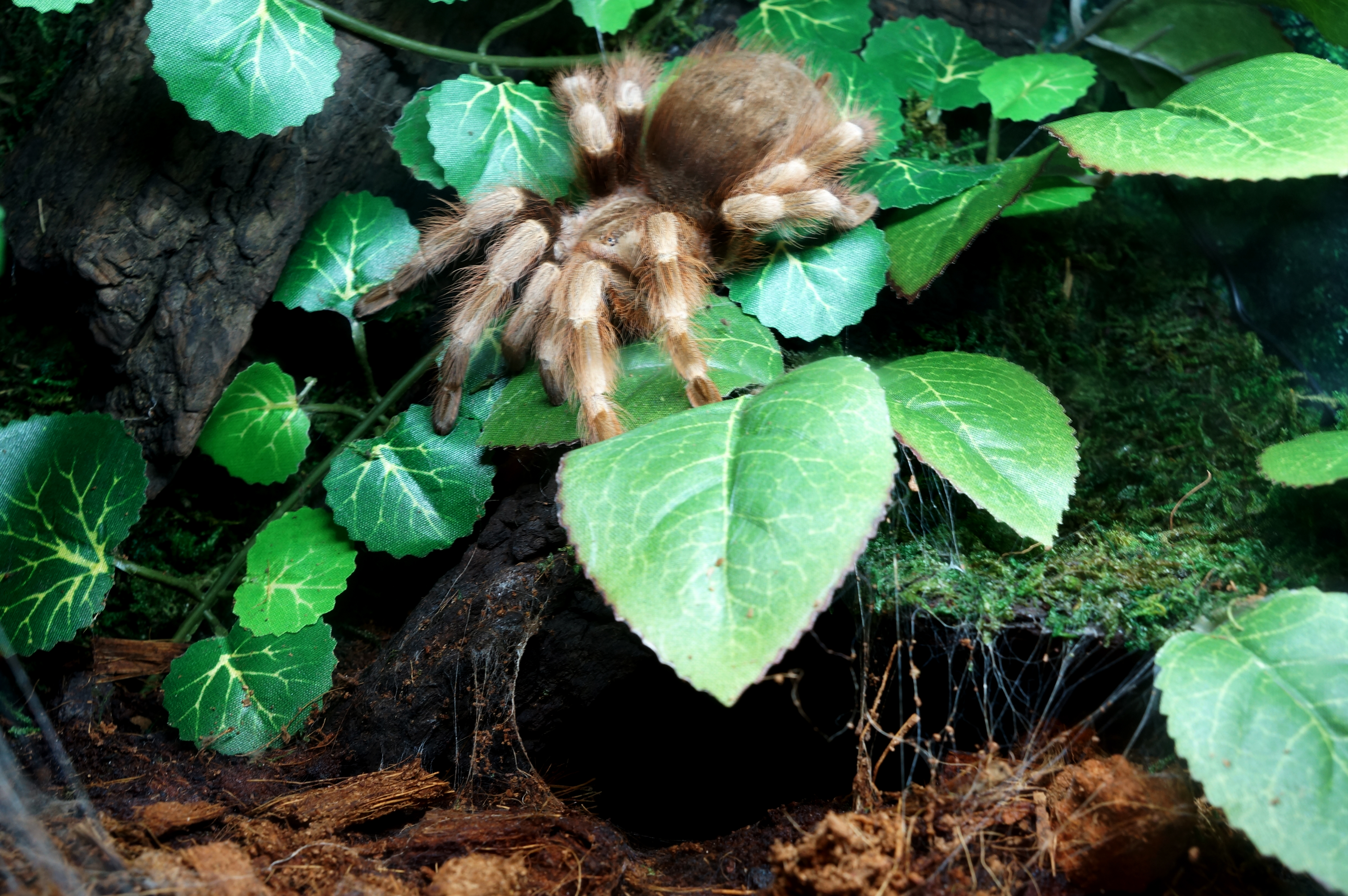 Nhandu coloratovillosus a week before the molt